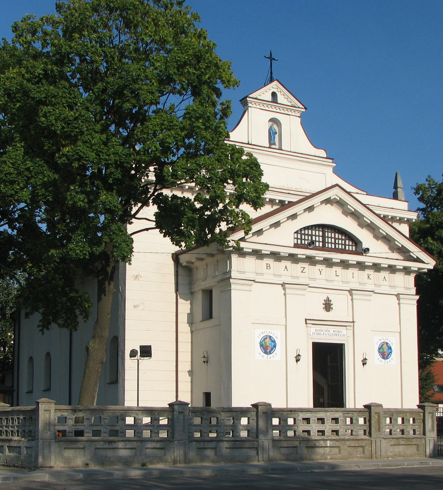 Basilica in Bielsk Podlaski, Poland